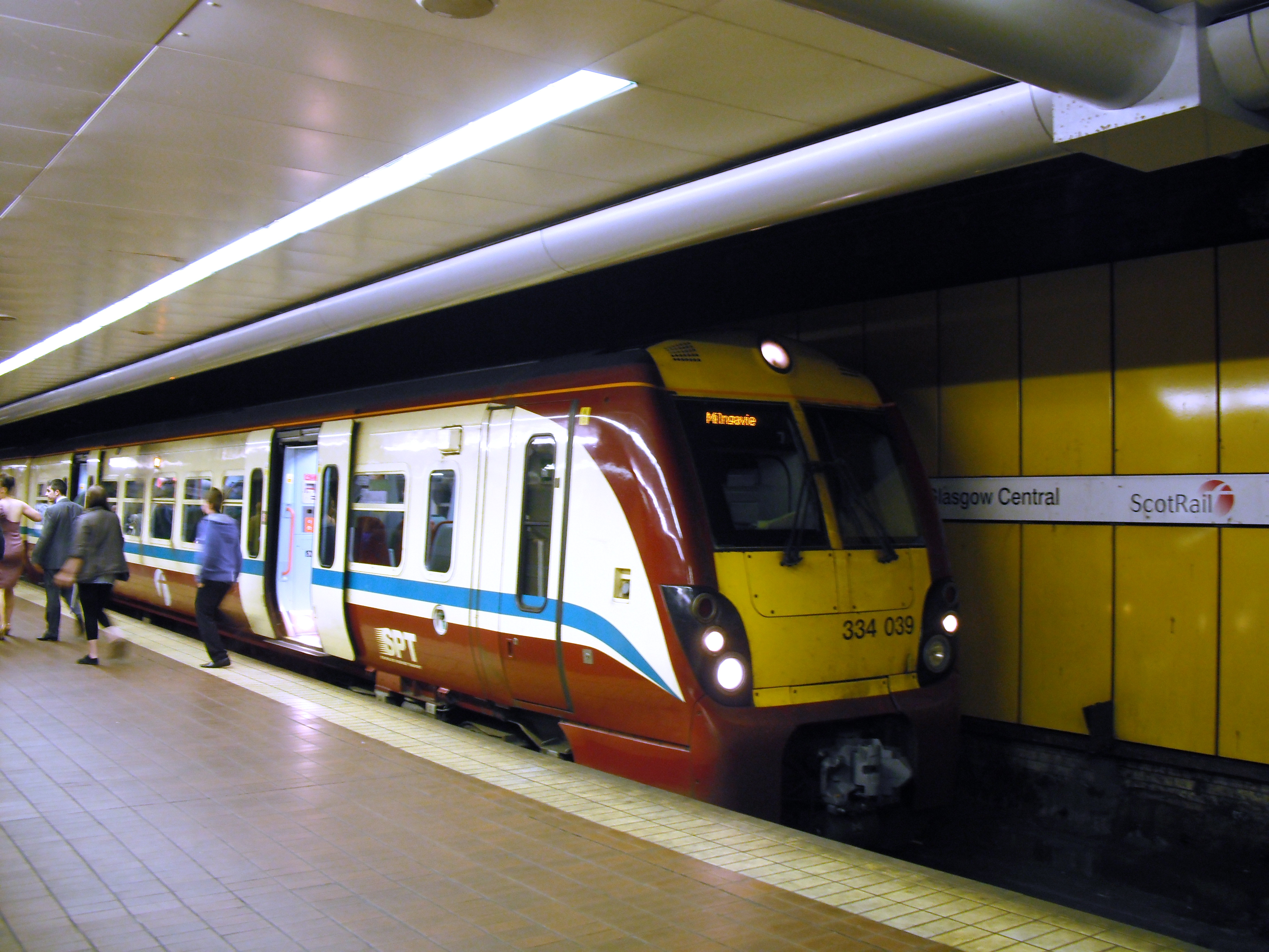 334 039 at Glasgow Central low level